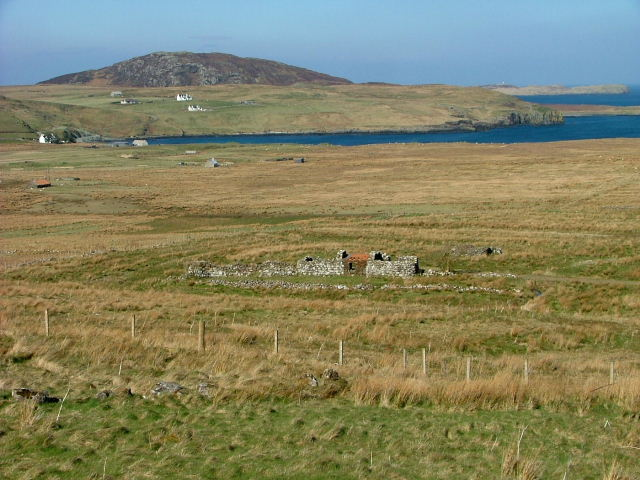 Croftland at Kilmaluag Looking towards Kilmaluag Bay, houses at The Aird and Ben Volovaig.